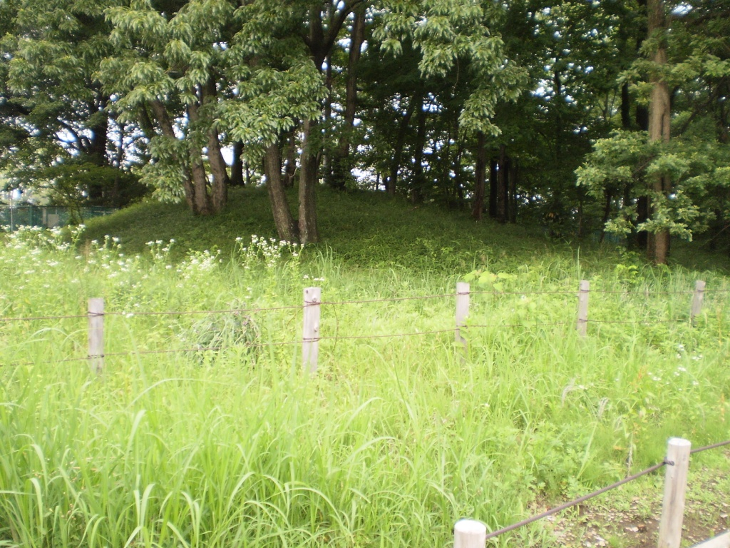 The Mound 2,Gongenyama Kofungun cluster of tumuli,Fujimino-city,Saitama Pref.